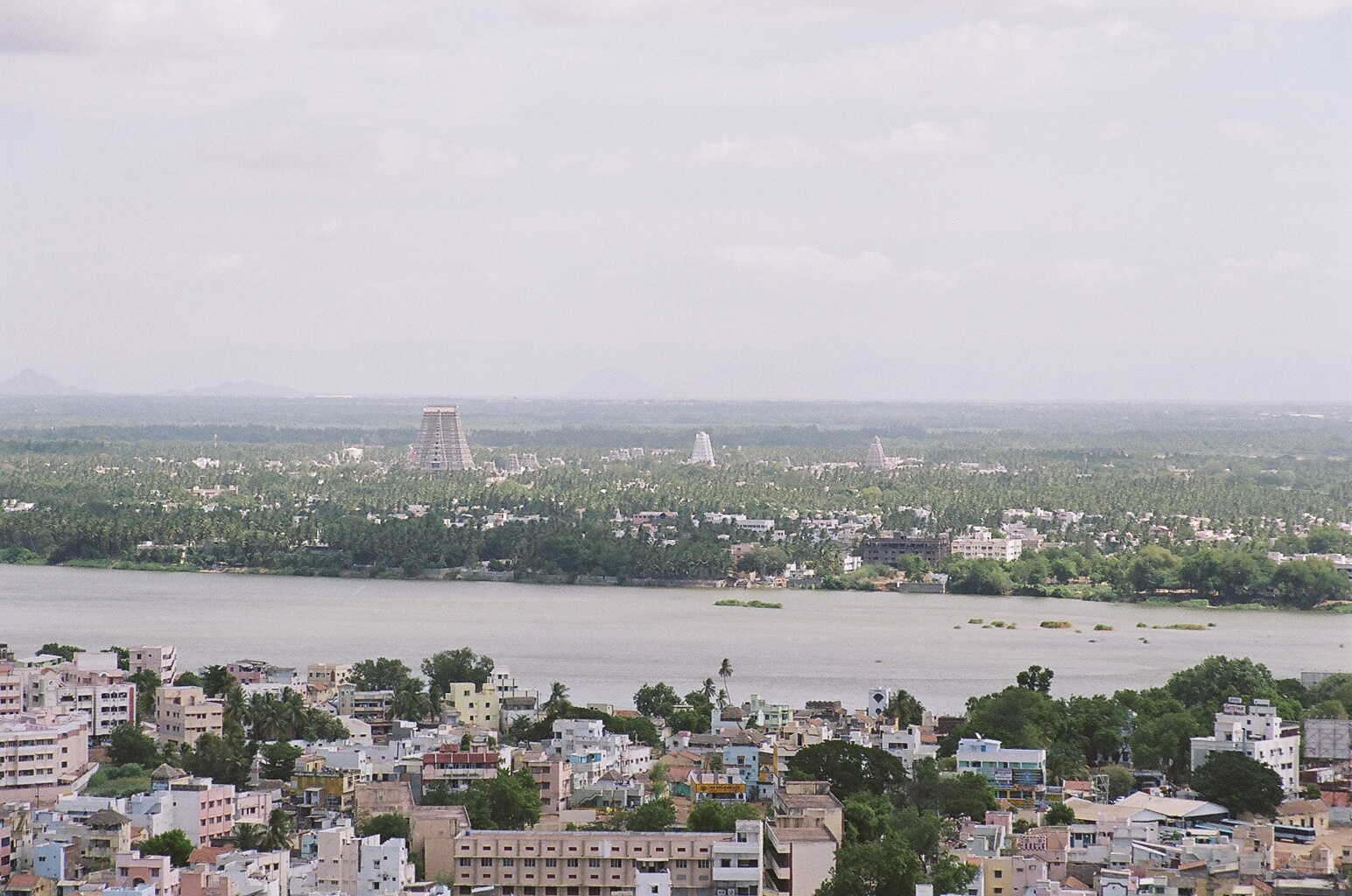 Trichy city and Srirangam town separated by Kaveri river